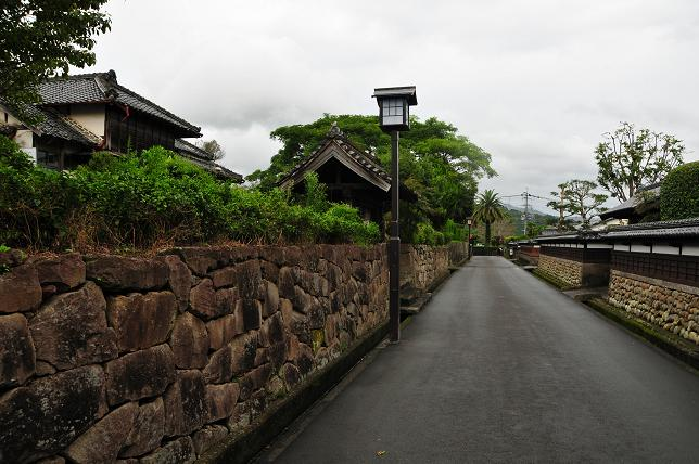 obi miyazaki japan